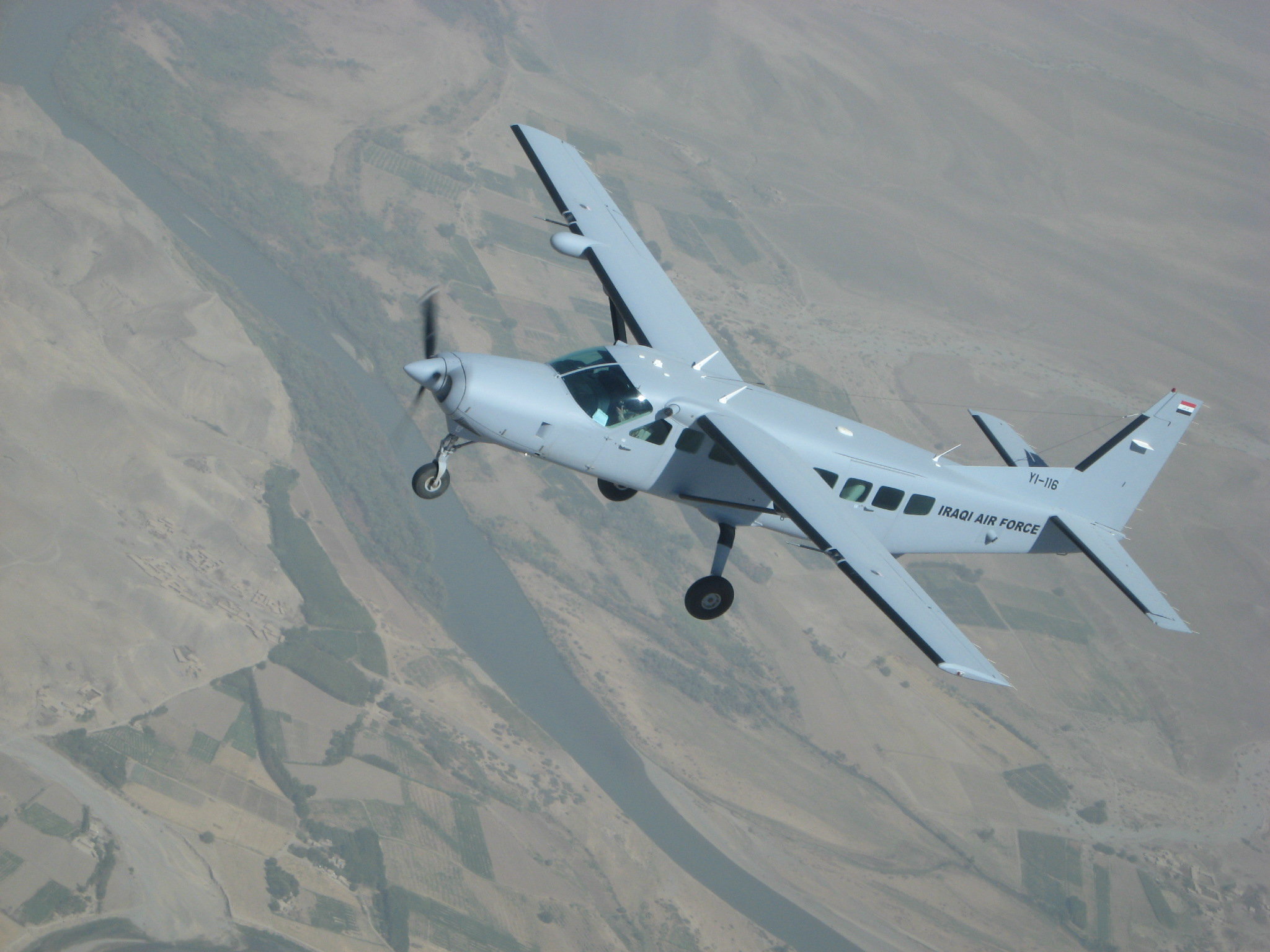 A Cessna 208 Caravan assigned to the Iraqi air force Flying Training Wing flies over Northern Iraq during a recent training mission.